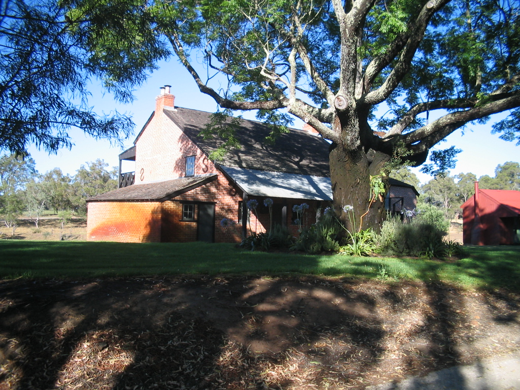 Millhouse Cottage, site of Henry Bull's Mill in Belhus, Western Australia